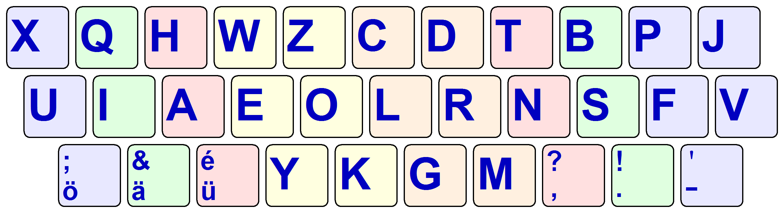 An alternative German keyboard layout also suitable for English and Spanish, developed 1954 and published 1964/1967 (Helmut Meier, Deutsche Sprachstatistik"", original publication 1964, 2th ed. Hildesheim 1967, p. 343.) Information about the digit row is lacking in the publication.